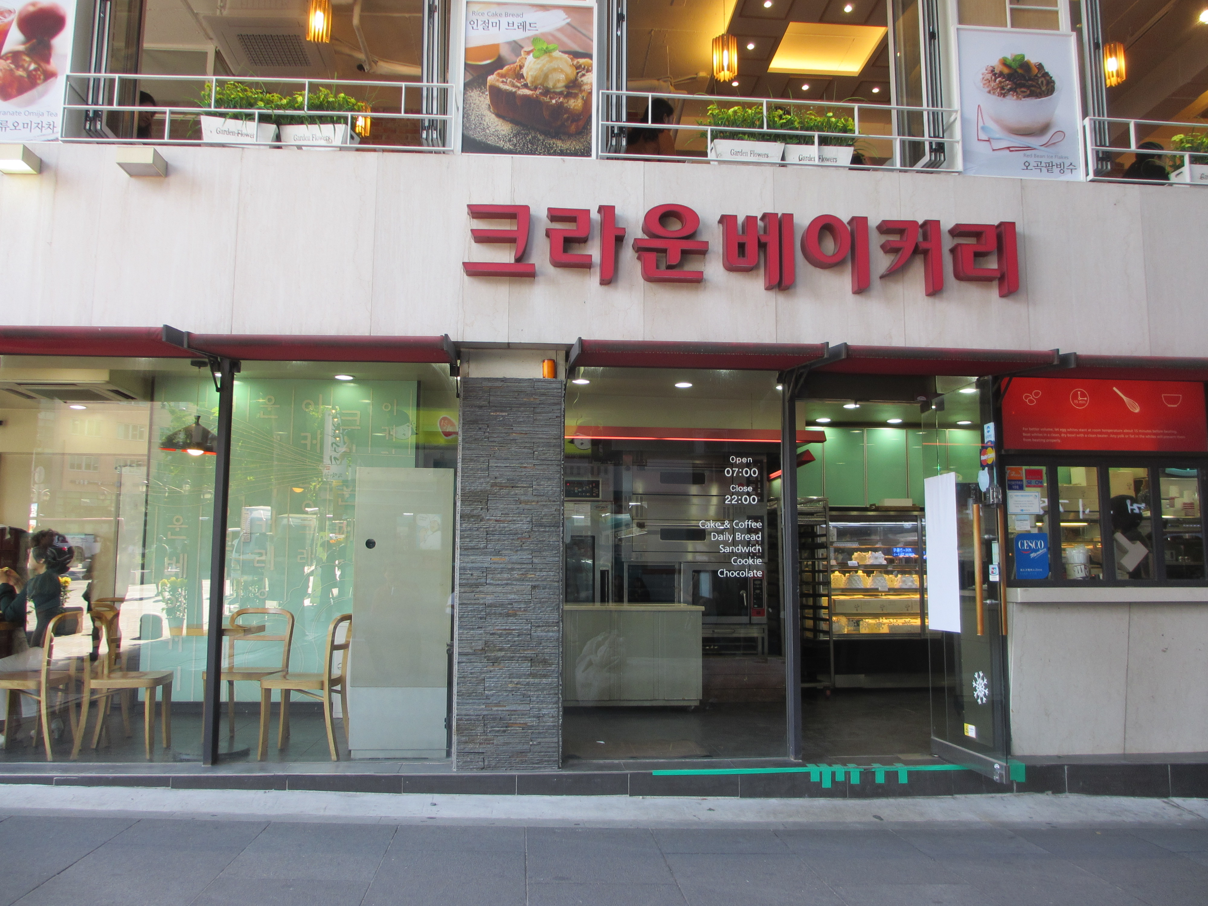 Crown Bakery